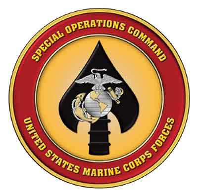 Insignia of United States Marine Corps Forces Special Operations Command.